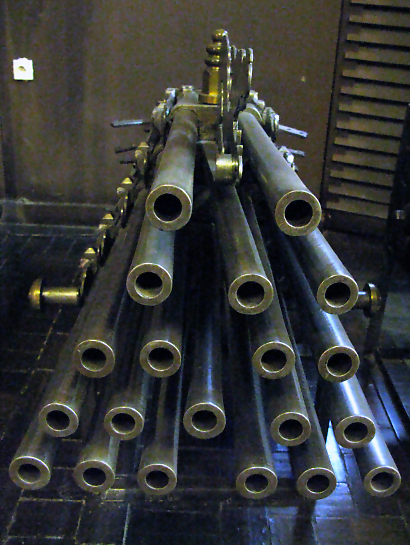 Polish multiple gun from XVI-XVII century